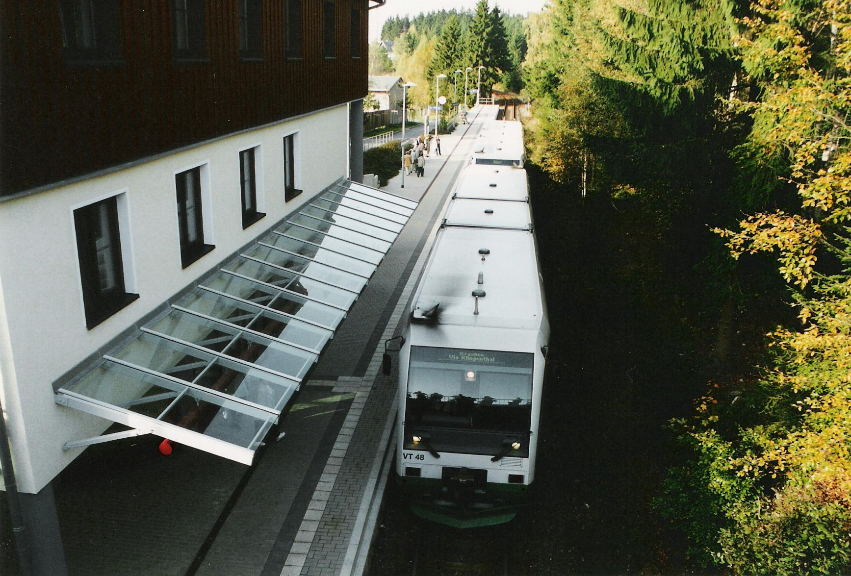 VT 48 of the Vogtlandbahn stopping with a second DMU unit in Schöneck (Vogtland) Ferienpark (2001-10-14).